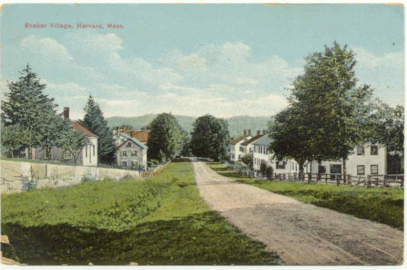 Harvard Shaker Village, from a c. 1905 postcard